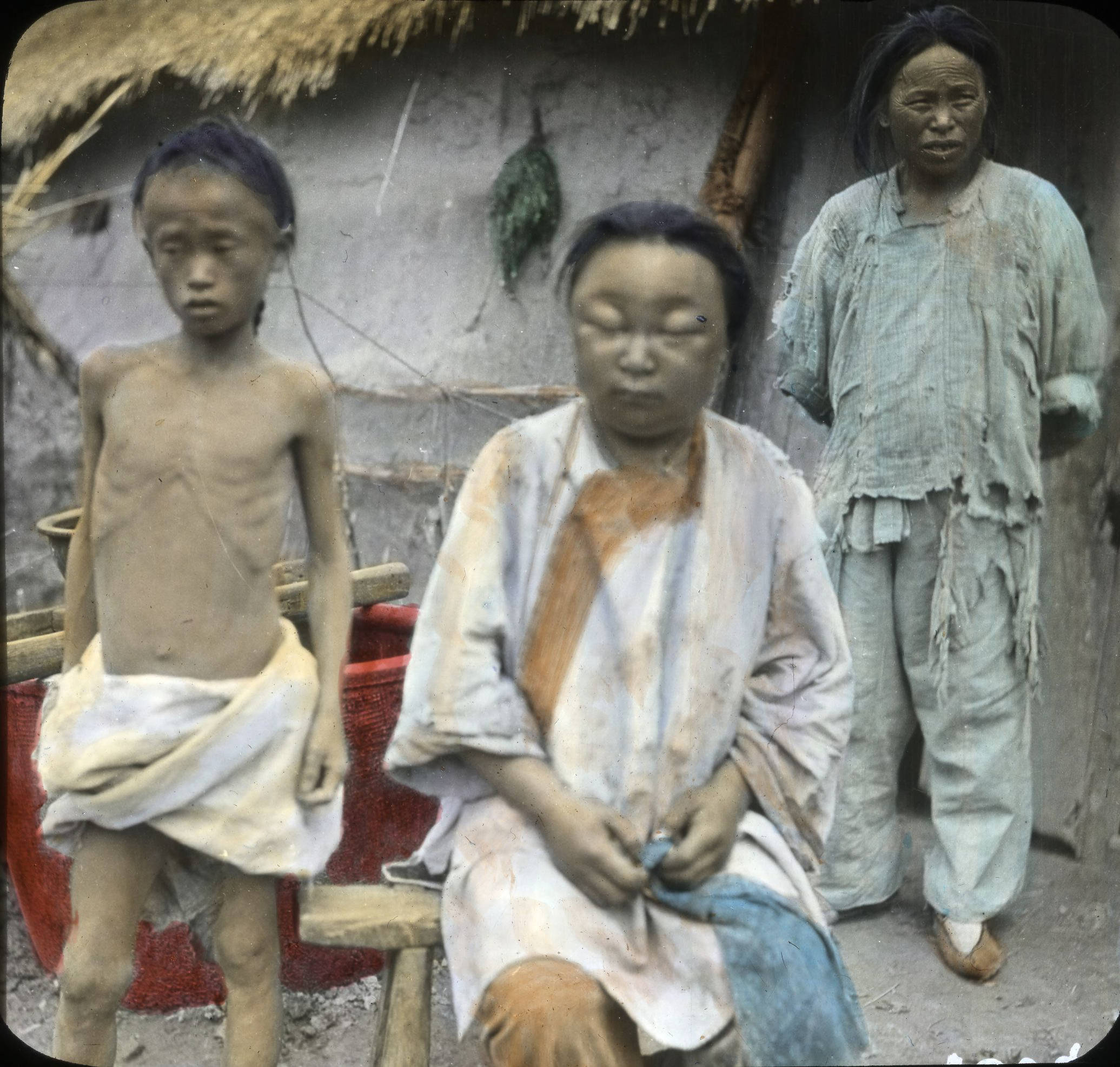 Emaciation, disease, and famine, Korea, [s.d.] Emaciation, disease, and famine, Korea, [s.d.]. Date created: 1908/1922 Publisher (of the Digital Version): University of Southern California. Libraries Repository Name: Methodist Church (U.S.) Legacy Record ID: kda-m149 Photographer: Methodist Episcopal Church Format: photograph Archival file: kda_Volume42/Taylor_nobookM.jpg Rights: "Neither the General Conference nor any General Agency of The United Methodist Church (successor to the Methodist Episcopal Church) claims any interest in the photos or images." Filename: Taylor_nobookM Coverage date: 1908/1922 Contributing entity: University of Southern California Repository Address: Nashville, Tennessee Part of collection: Korean Digital Archive Donor: Taylor, Ewing Bevard Type: images Part of subcollection: The Reverend Corwin & Nellie Taylor Collection Geographic Subject (Country): Korea Compiler: Taylor, Corwin; Blood-Taylor, Nellie